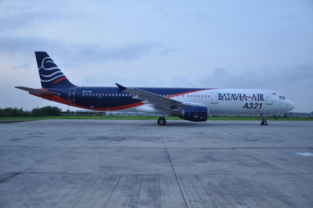 Batavia Air P720